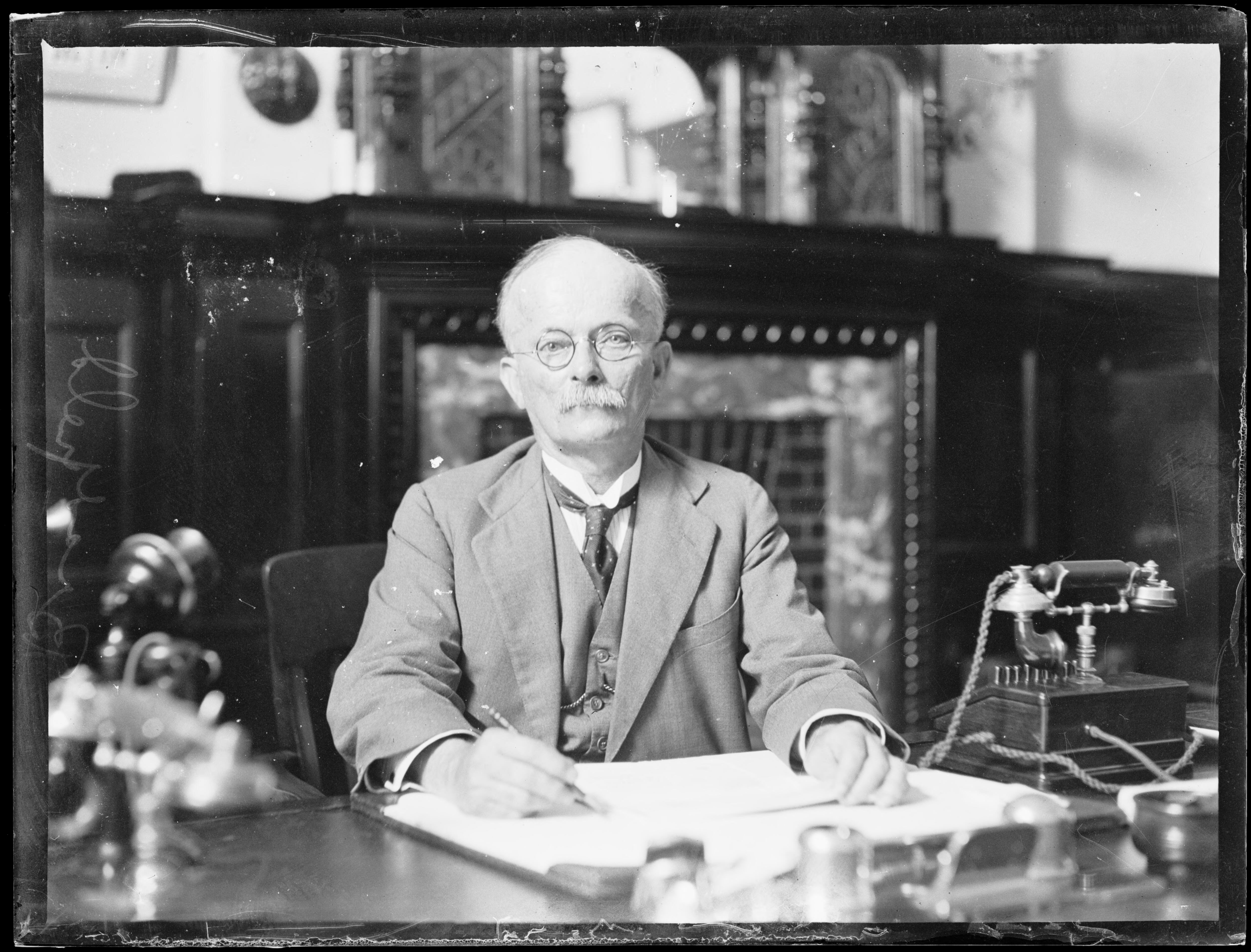 Australian engineer John Bradfield at his desk